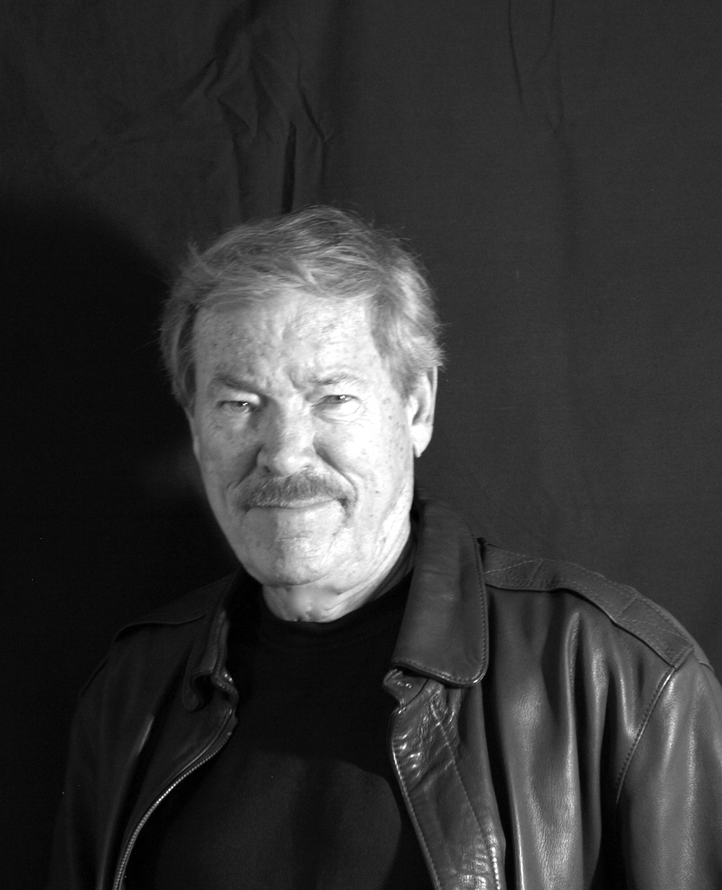 Photogragph of Robert Gandt, Author and Naval Historian.